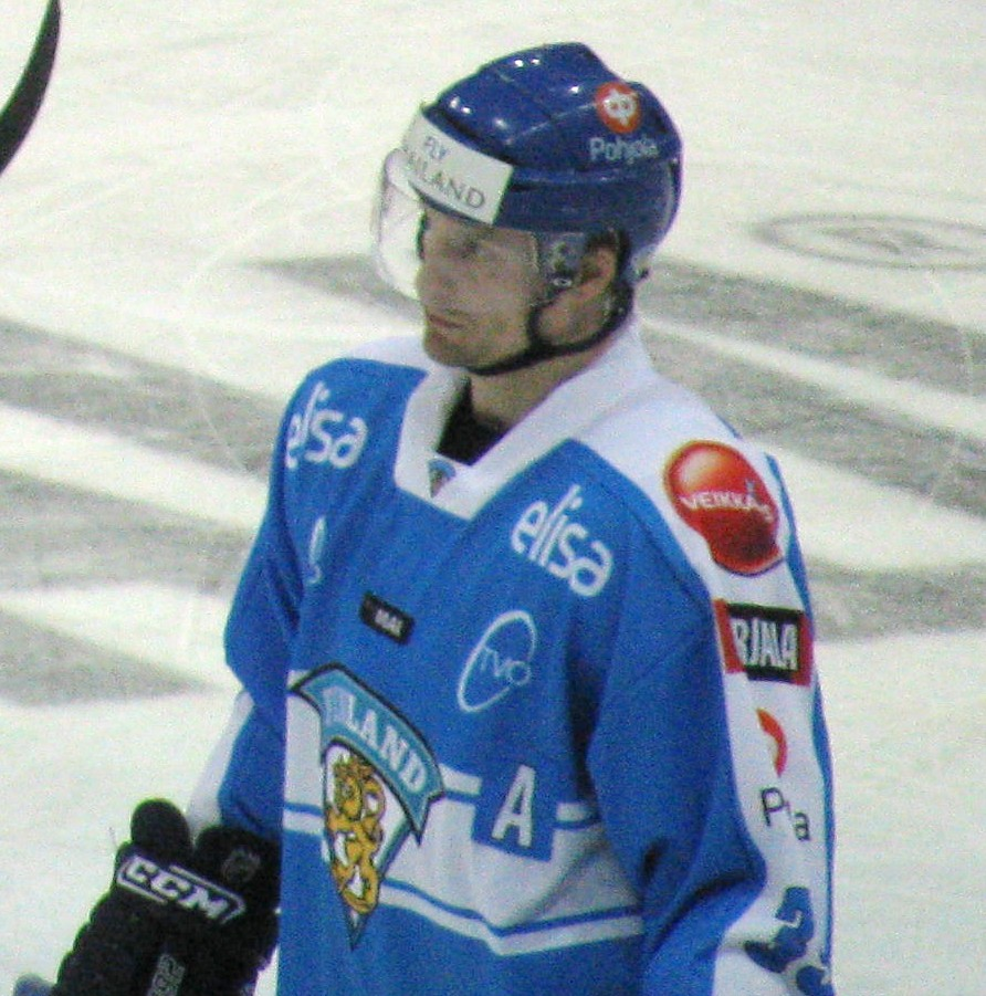 Niko Kapanen (Finland) in match against Sweden (7-0 for Finland)